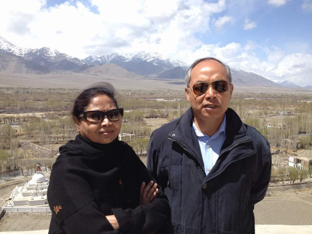 Lt. Gen. Konsam Himalay Singh with wife Dr. (Mrs) Mangala Devi